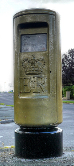 Golden post box for Sarah Storey in Poynton, Cheshire, Great Britain.